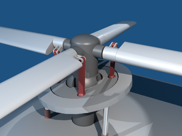 Principle of a helicopter swashplate assembly